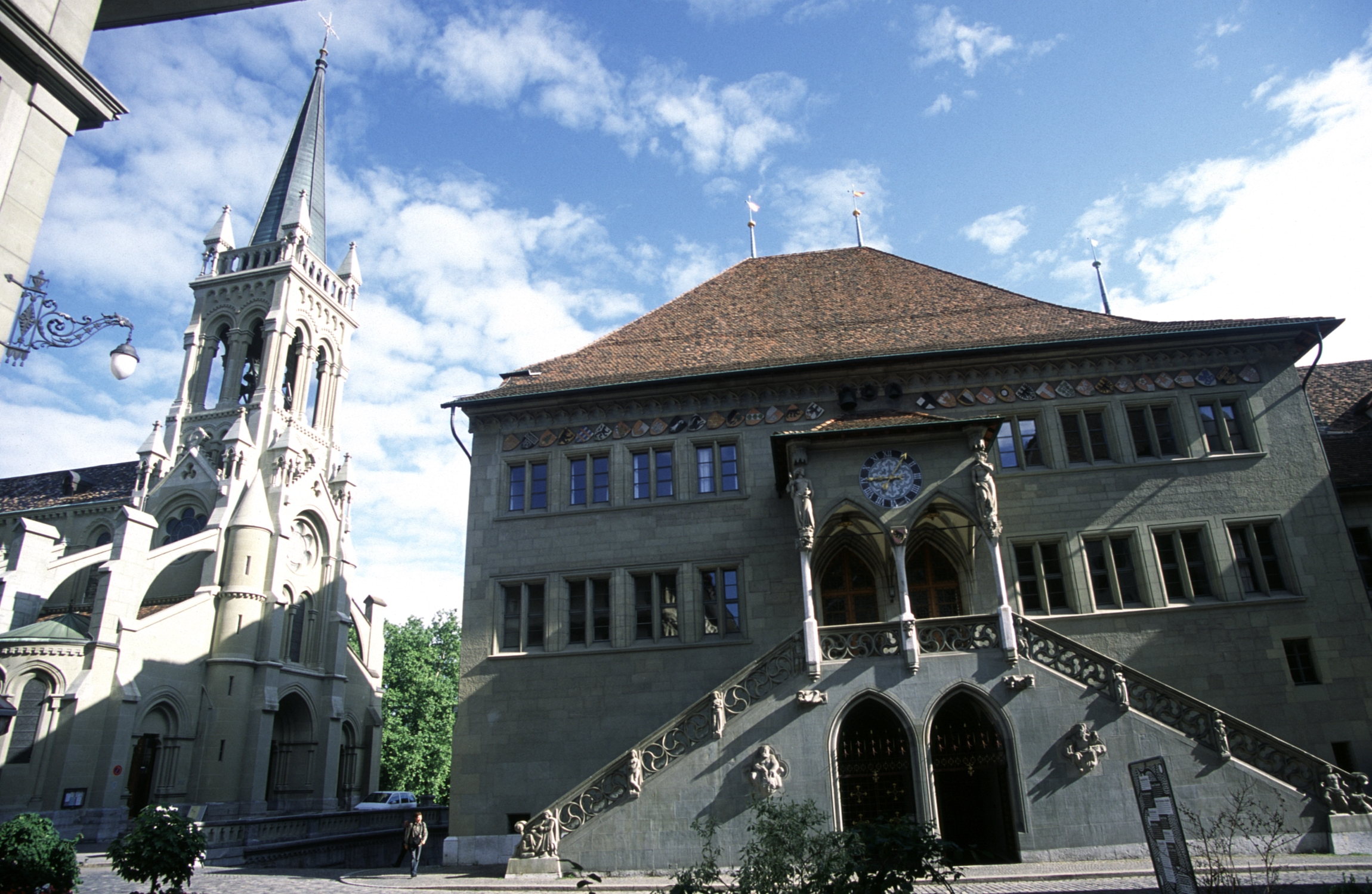 Church St. Peter and Paul (left hand) and Berner Rathaus (city hall), Berne, Switzerland